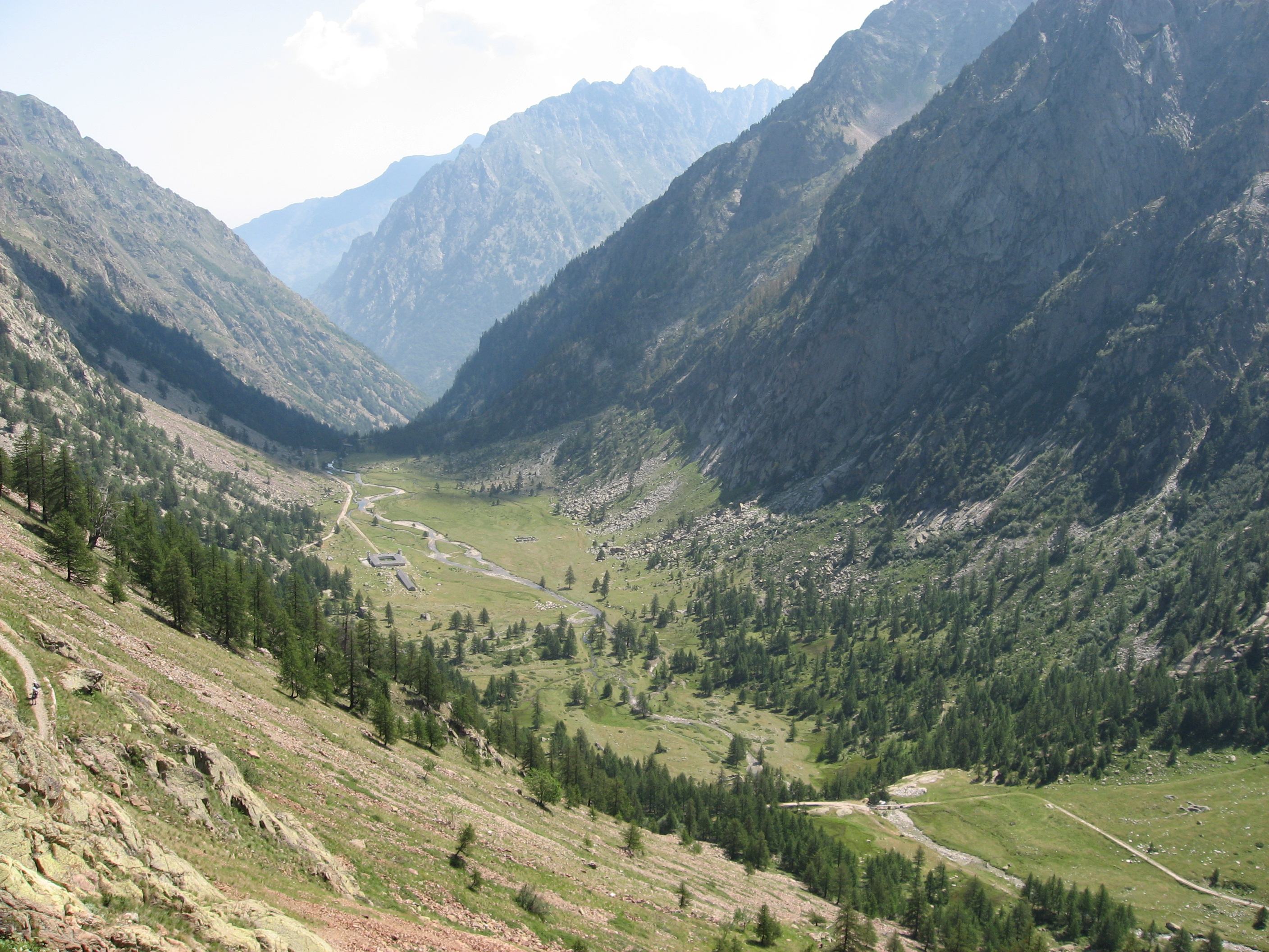 Pian del Valasco, Gesso Valley (Cuneo-CN), in the Parco naturale delle Alpi Marittime, Piedmont, Italy